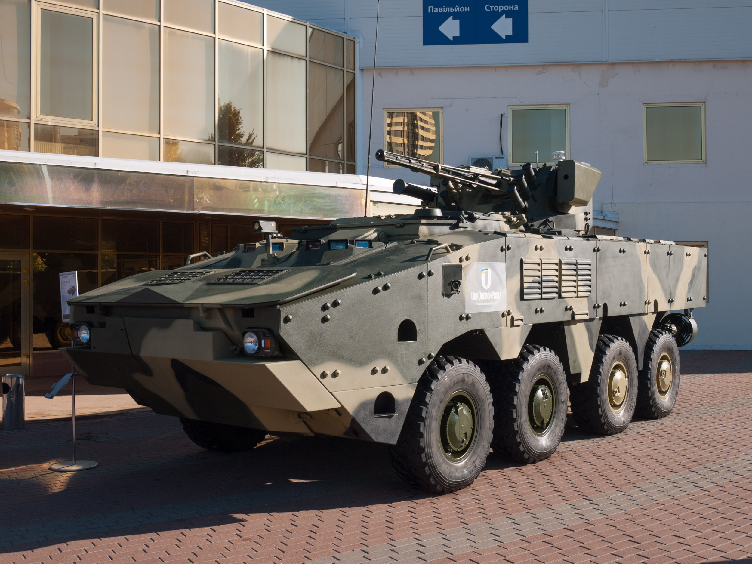 BTR-4MV1 armored personnel carrier, 'Zbroya ta Bezpeka' military fair, Kyiv, Ukraine, 2018